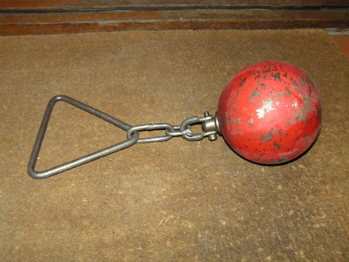 This is a throwing weight of 15.88 kilos. It is approx. 42 cms long. The diameter of the ball is approx. 15 cms.